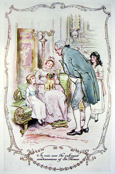 Illustration for ch 2 of Mansfield Park, published as part of the Series of English Idylls, by J.M Dent & Co. (London) and E.P. Dutton & Co. (New York).